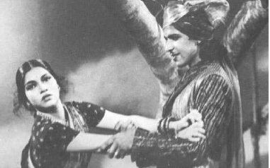 Vasundhara Devi and Ranjan in the 1943 Tamil film Mangamma Sabatham